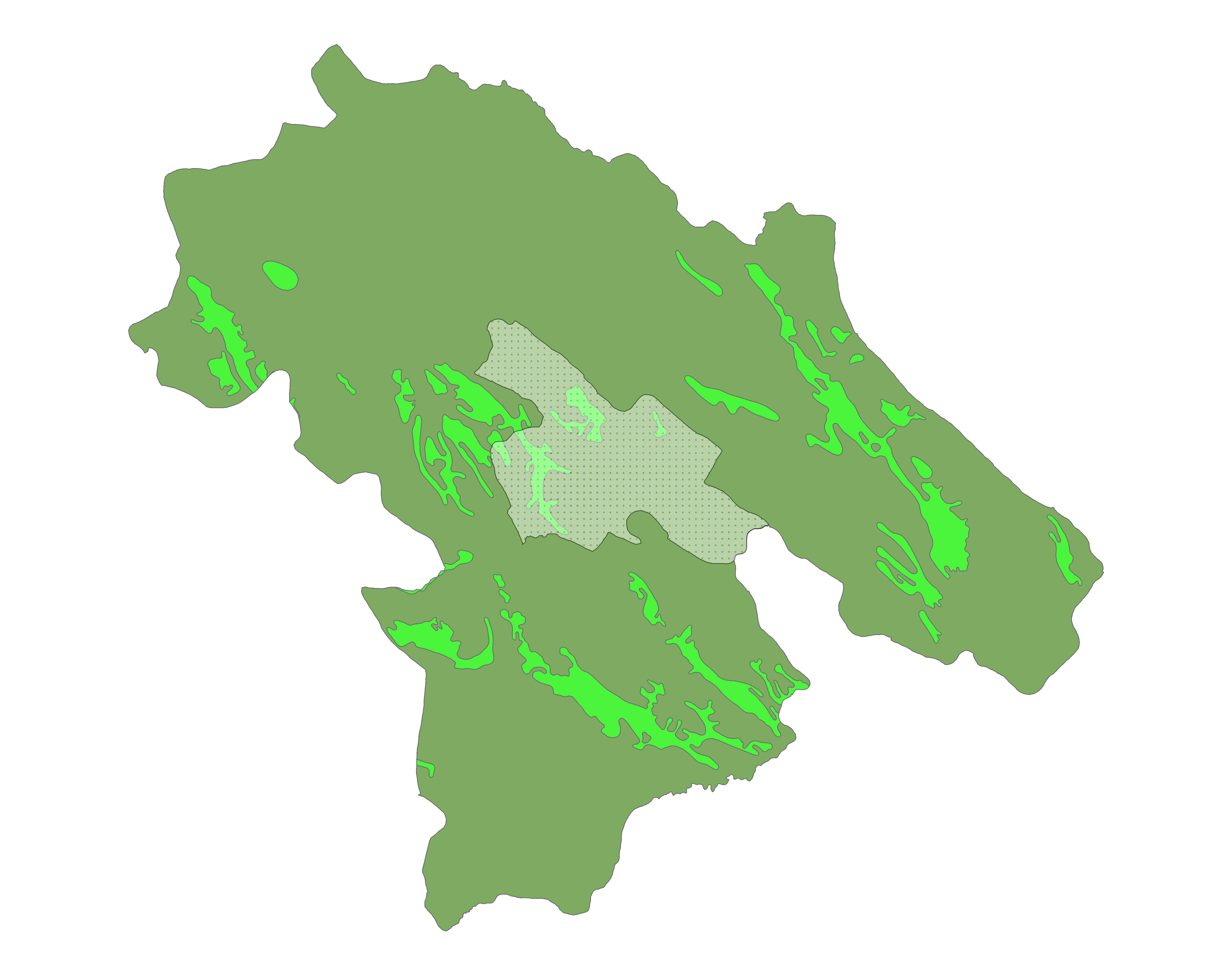 Choram mountain and plain map Mountain Plain